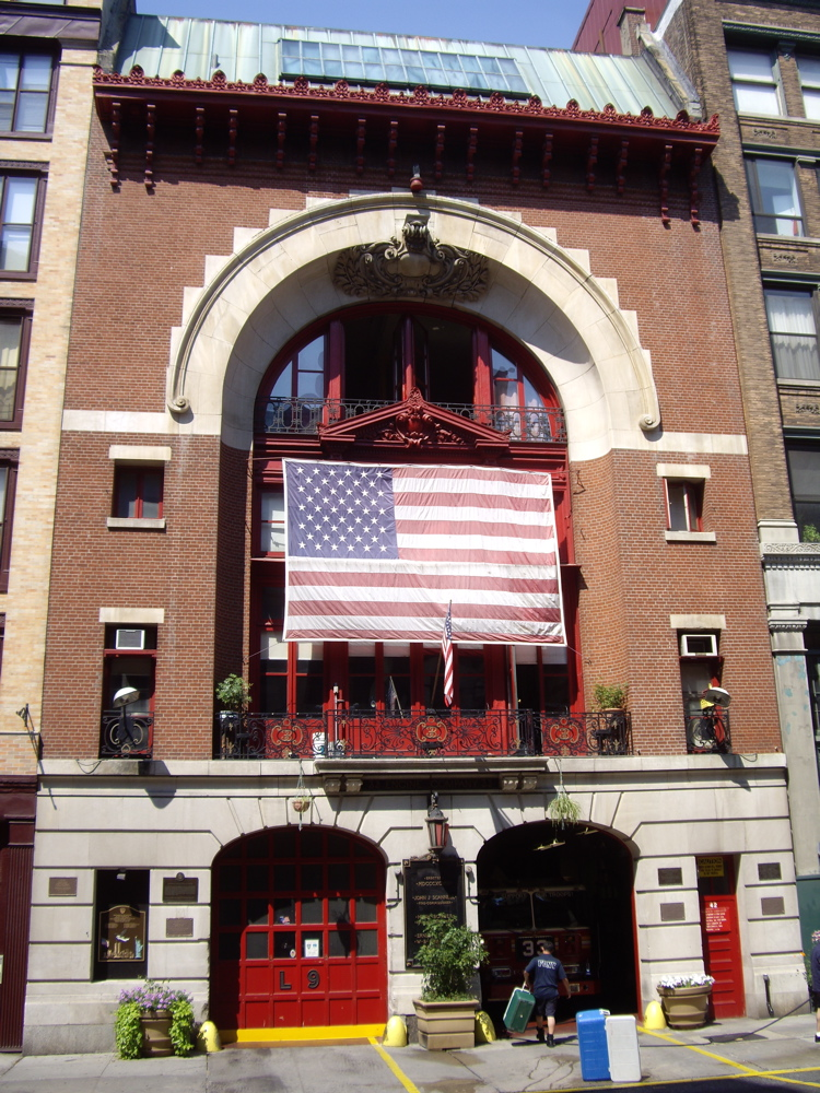 44 Great Jones, Manhattan, New York City, a Beaux Art firehouse which is the home of NY Engine Company 33. It was built in 1898-99, and was designed by Ernest Flagg. Designated a New York City landmark in 1968. (sources:AIA Guide to NYC (4th ed.), New York City landmarks (4th ed.)}